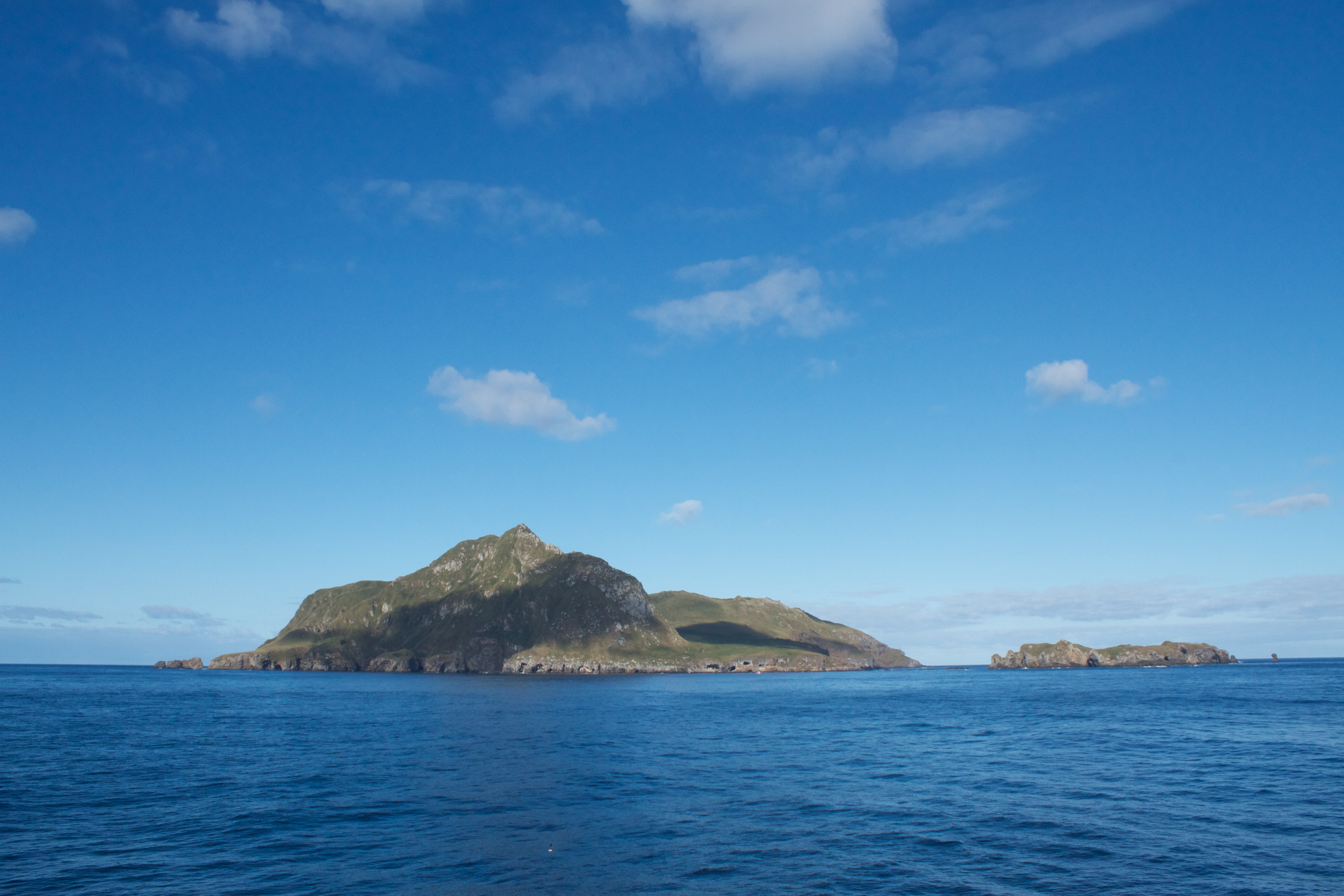 Nightingale Island, British overseas territory.